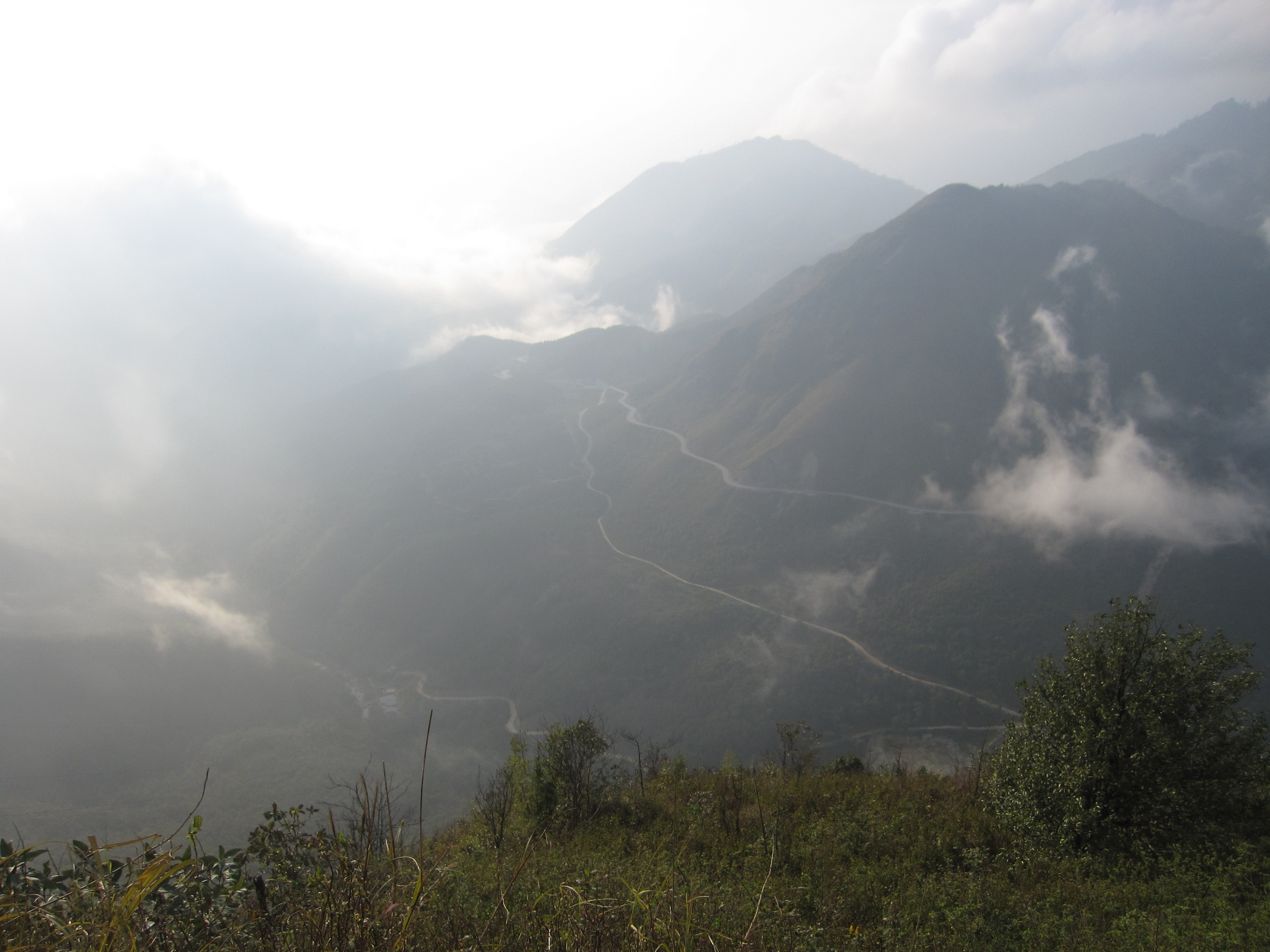 Ô Quy Hồ PassTiếng Việt: Đèo Ô Quy Hồ